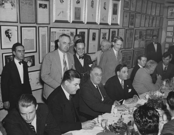 U.S. President Franklin D. Roosevelt at banquet at Antoine's, Restaurant, French Quarter, New Orleans in 1937. Seated beside Roosevelt are Louisiana Governor Richard Leche (seen to left of the president) and on the President's other side New Orleans Mayor Robert Maestri. President Roosevelt's son Elliot is seated far left. The man in the bow tie standing behind President Roosevelt is Roy Alciatore, proprietor of Antoine's. To the left of Alciatore is James M. Crutcher, Louisiana WPA Director.